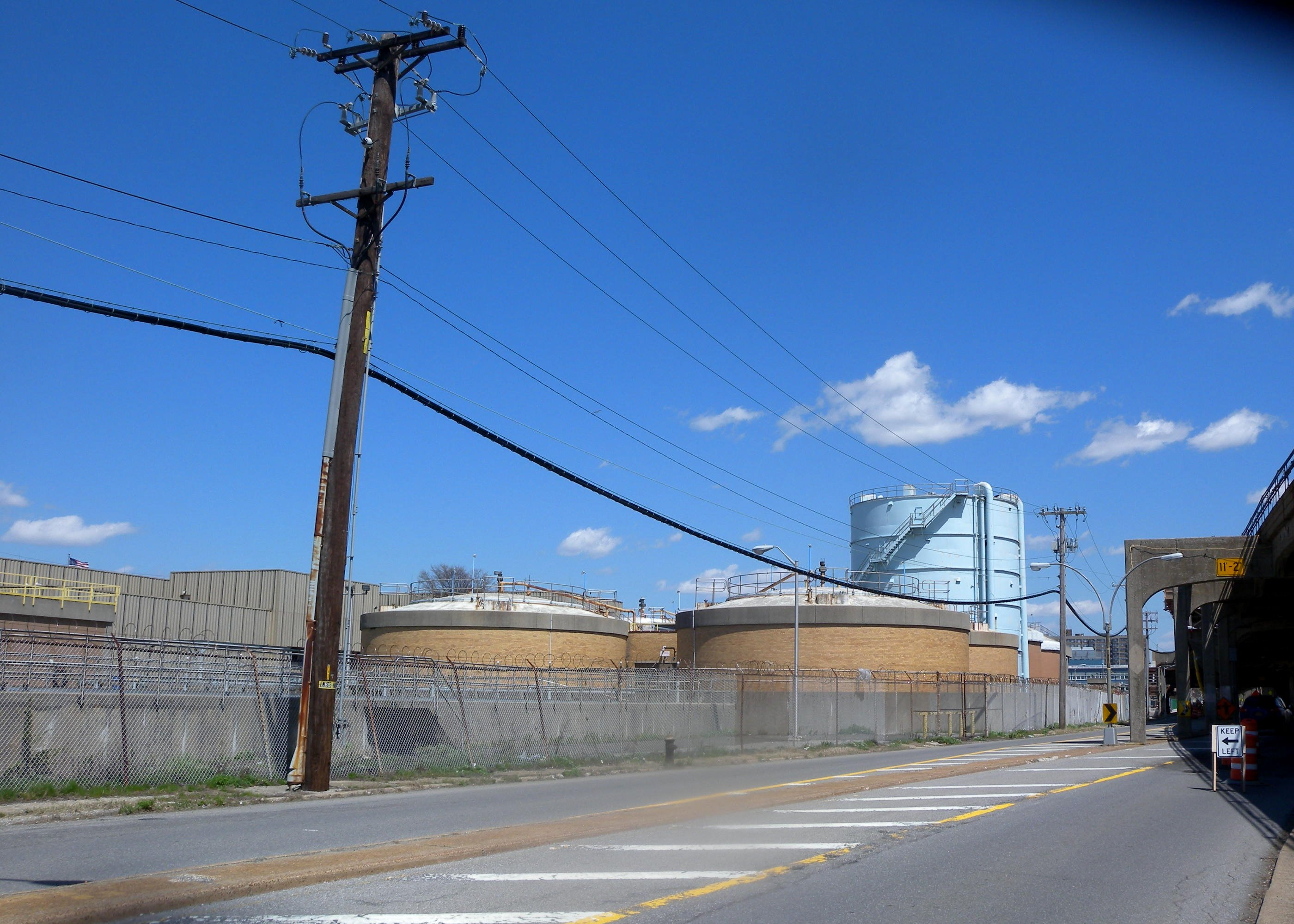 Looking northeast across Rockaway Parkway, at Rockaway wastewater plant, Queens, New York, on a sunny midday.